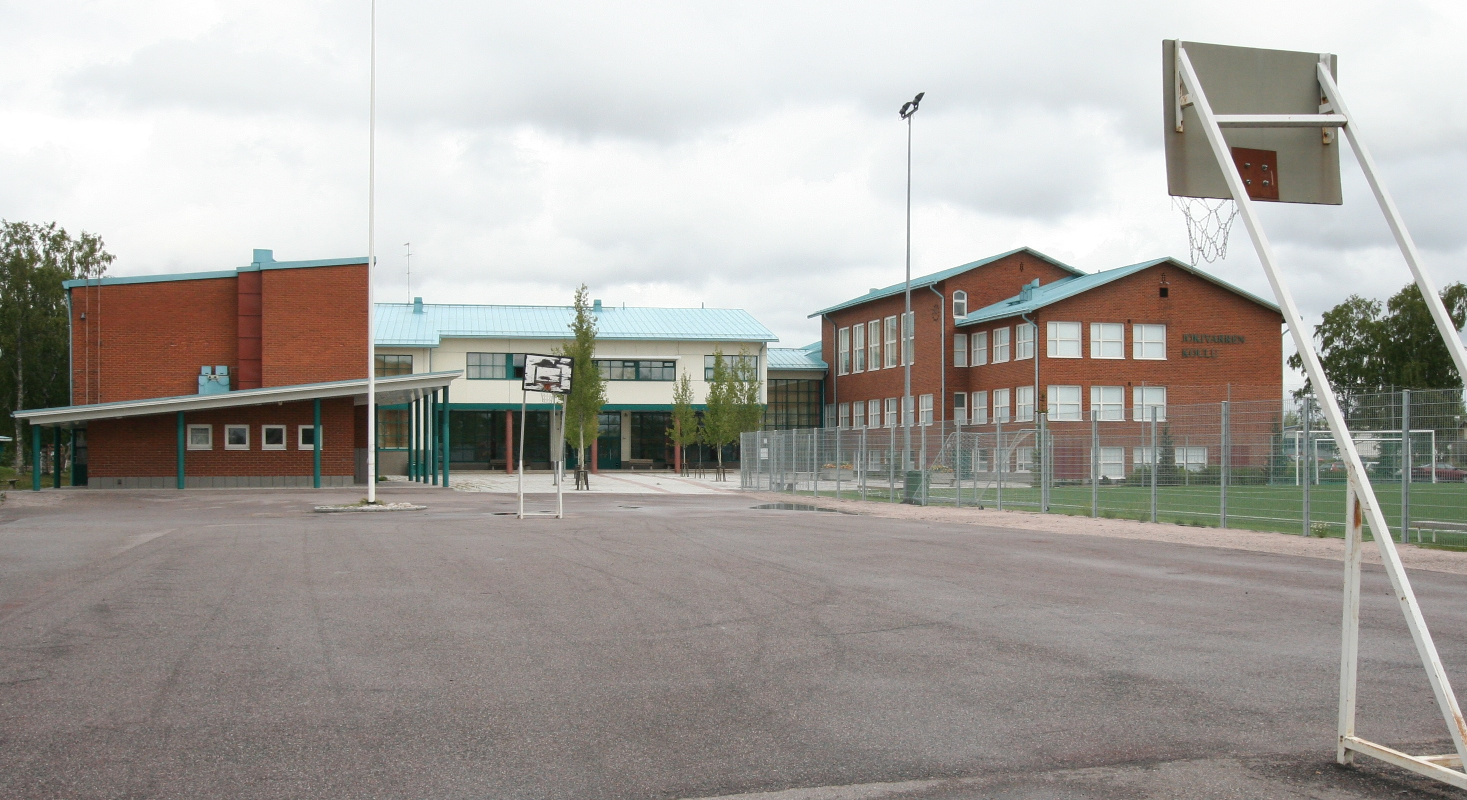 Jokivarren koulu, Orimattila, Finland.